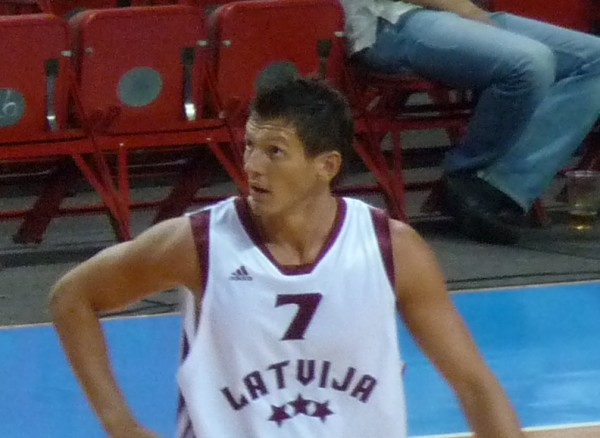 Jānis Blūms (b.1987). Picture taken during friendly match between Latvia and Sweden.